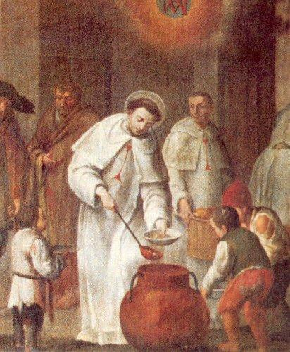 St. Simon de Rojas